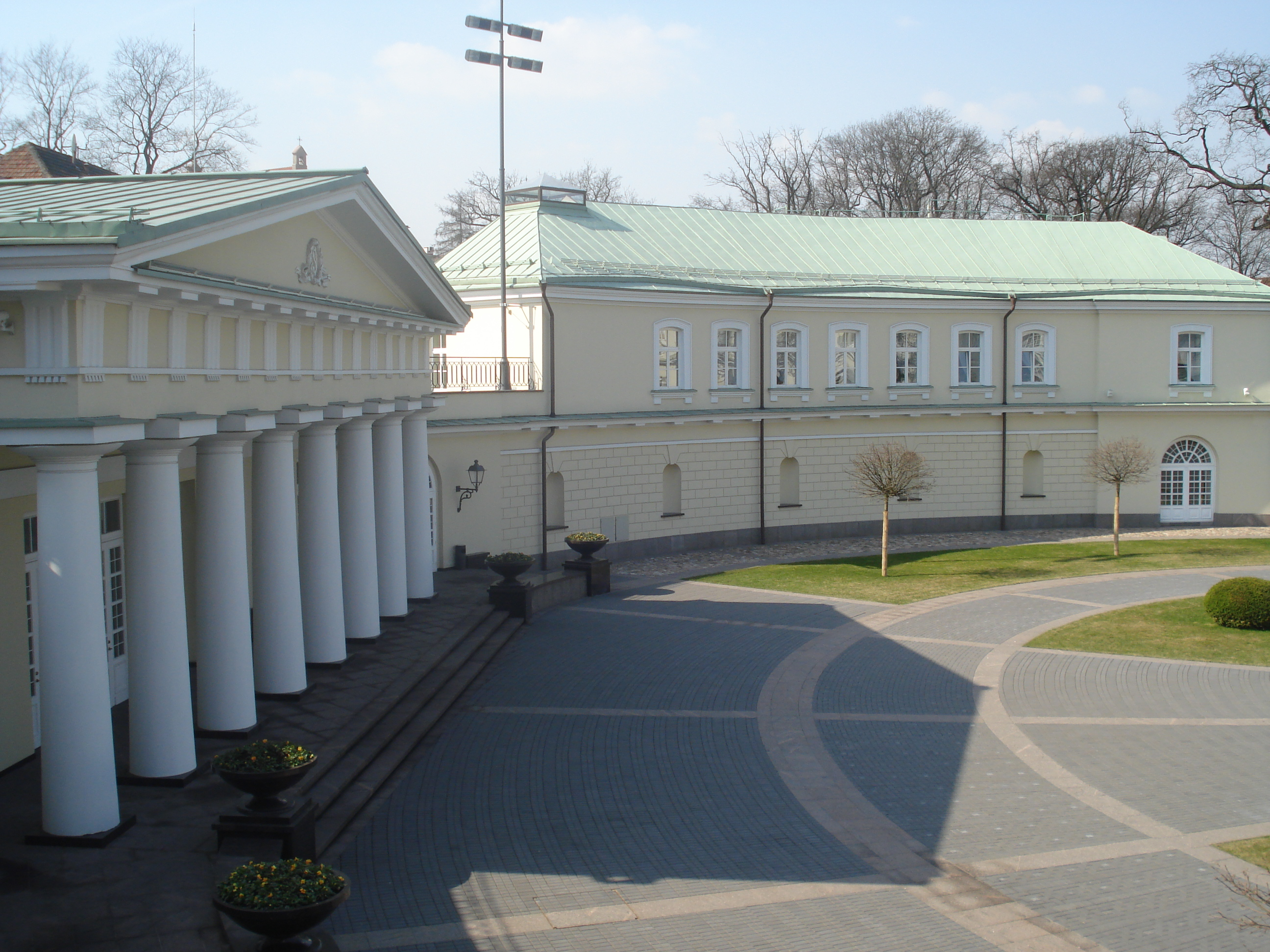 Backyard of the Presidential Palace in Vilnius